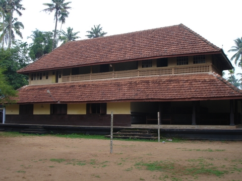 Paliam Naalukettu (5/2006) --Vivin Paliath (വിവി൯ പാലിയത്) 17:18, 13 January 2007 (UTC)